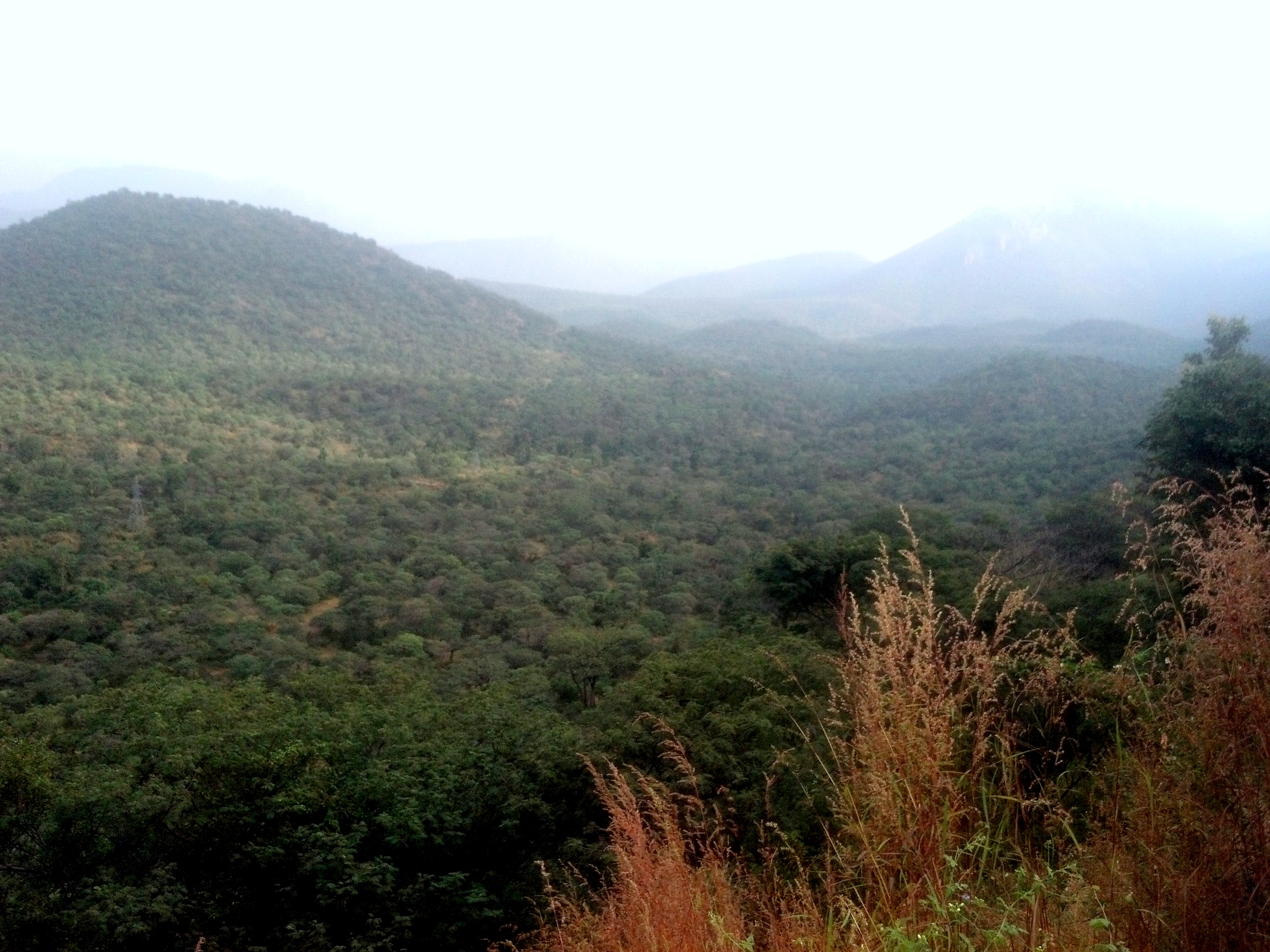 A view of M M Hills Wildlife Sanctuary - Meaningː Male Mahadeshwara Wildlife Sanctuary, Chamarajanagar, Karnataka 571490, India